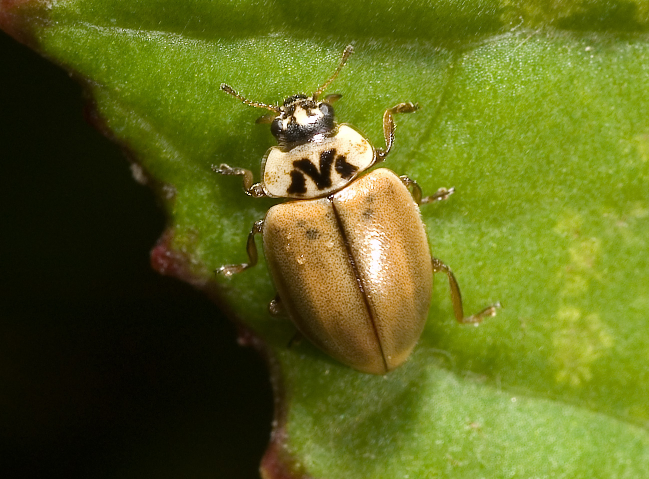 Larch ladybird